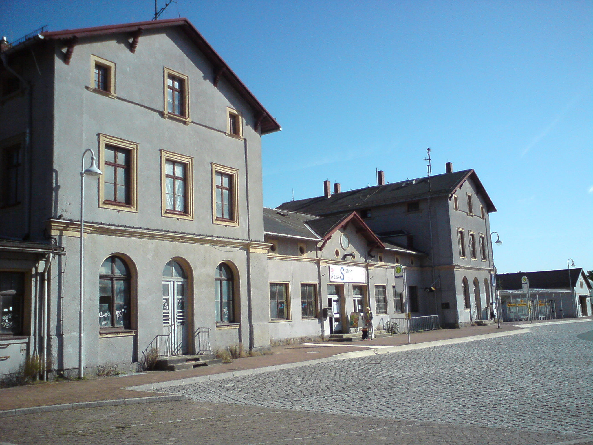 Train Station in Oschatz (Germany) 2011